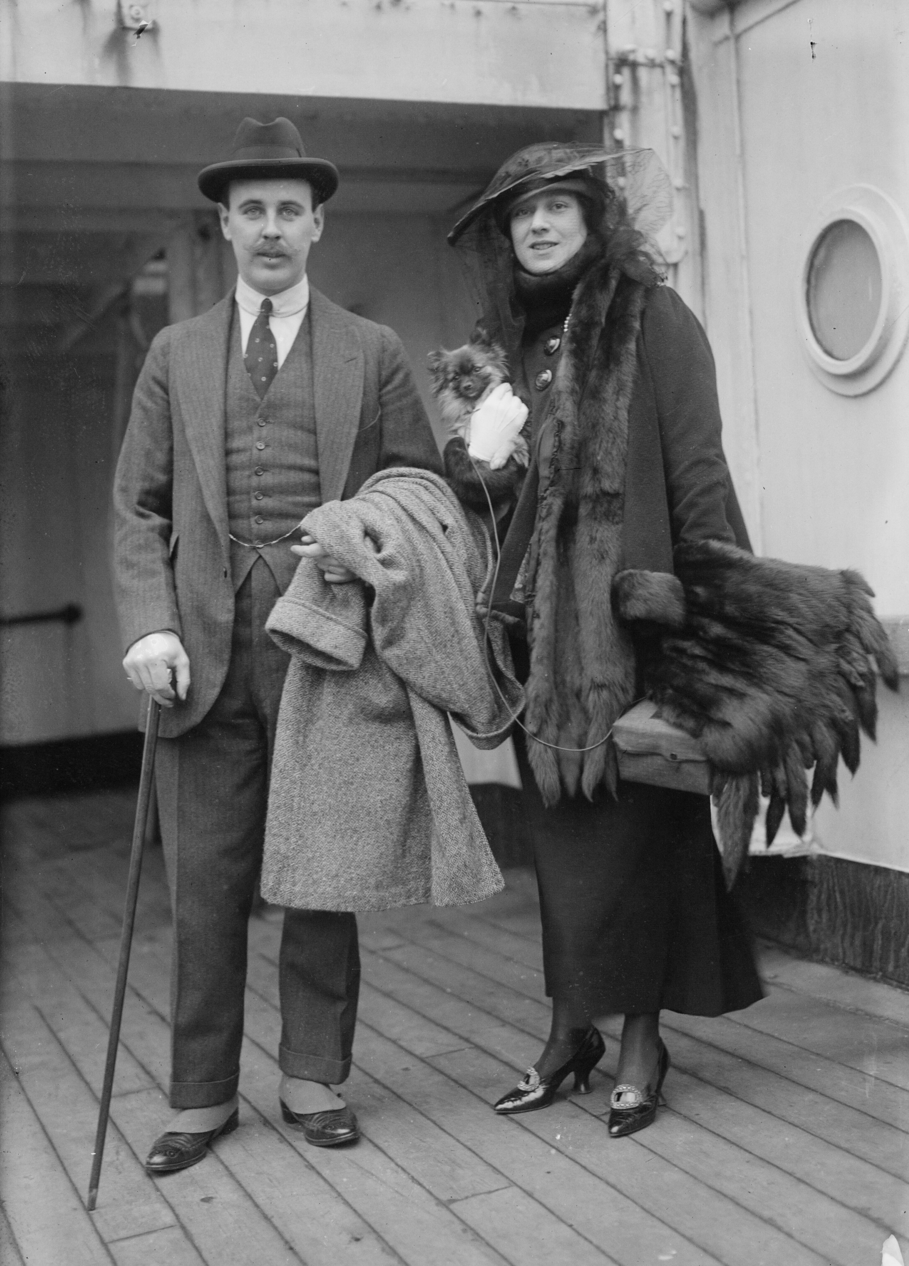 Anthony Joseph Drexel, Jr. (1887–1946) and his wife Marjorie Gould Drexel on December 29, 1916